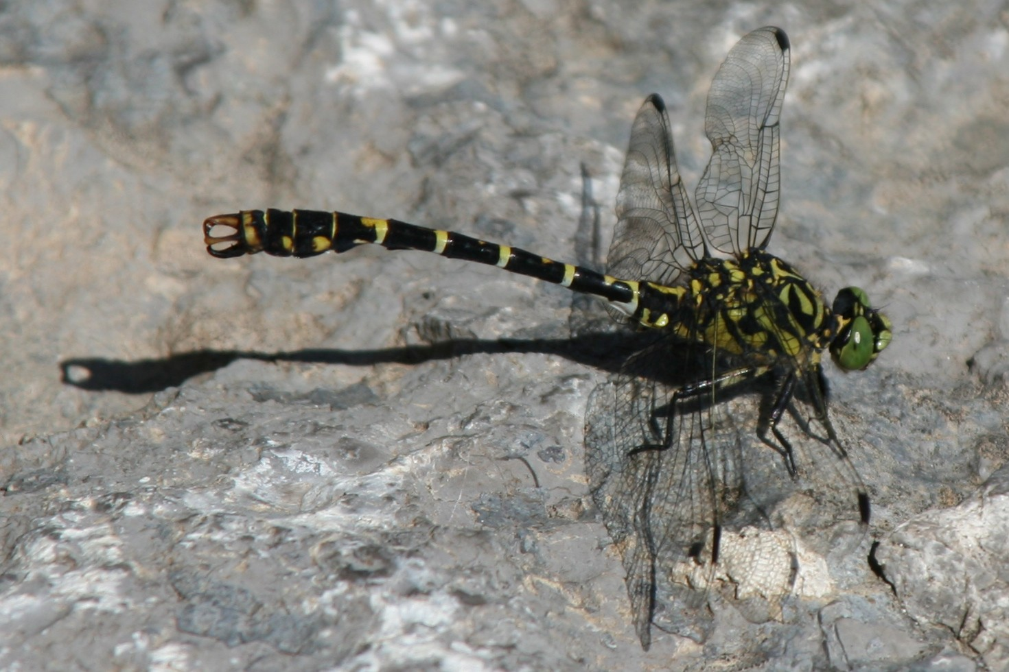 A male Green-eyed Hook-tailed Dragonfly (Onychogomphus forcipatus) found in Dörzbach-Hohebach